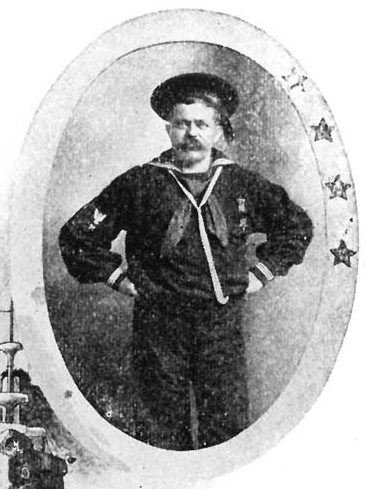 Carpenter's Mate Third Class William Meyer, United States Navy. Halftone reproduction of a photograph, published in Deeds of Valor, Volume II, page 359, by the Perrien-Keydel Company, Detroit, 1907. William Meyer received the Medal of Honor for his "extraordinary bravery and coolness" during the 11 May 1898 cable cutting operation off Cienfuegos, Cuba. He was then serving in USS Nashville (Gunboat # 7).